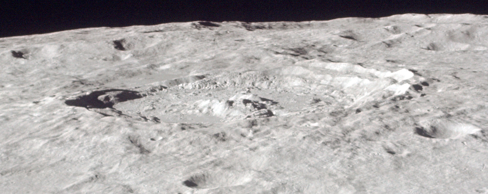 Oblique view of King, on the moon.